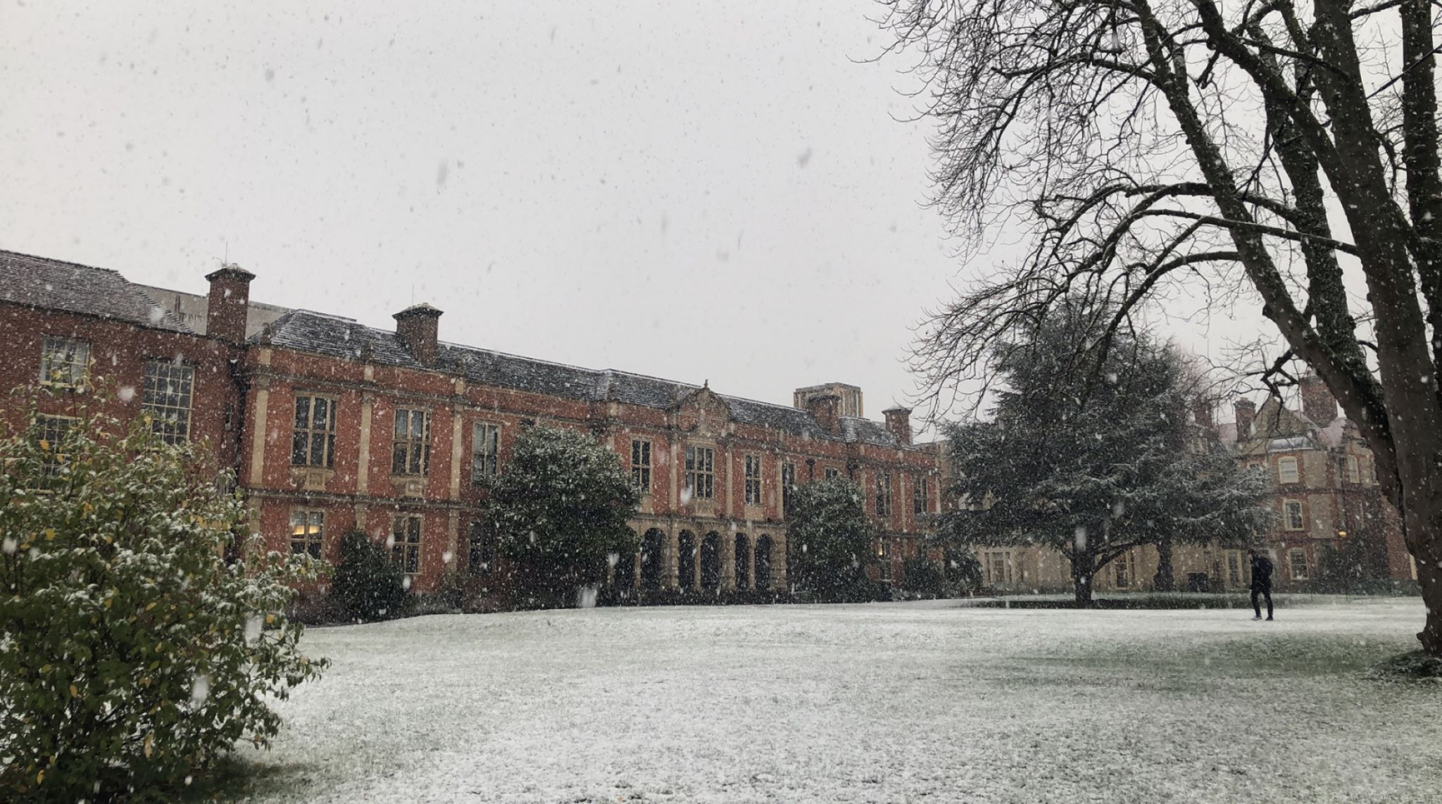 Somerville College Library in snow, 2018